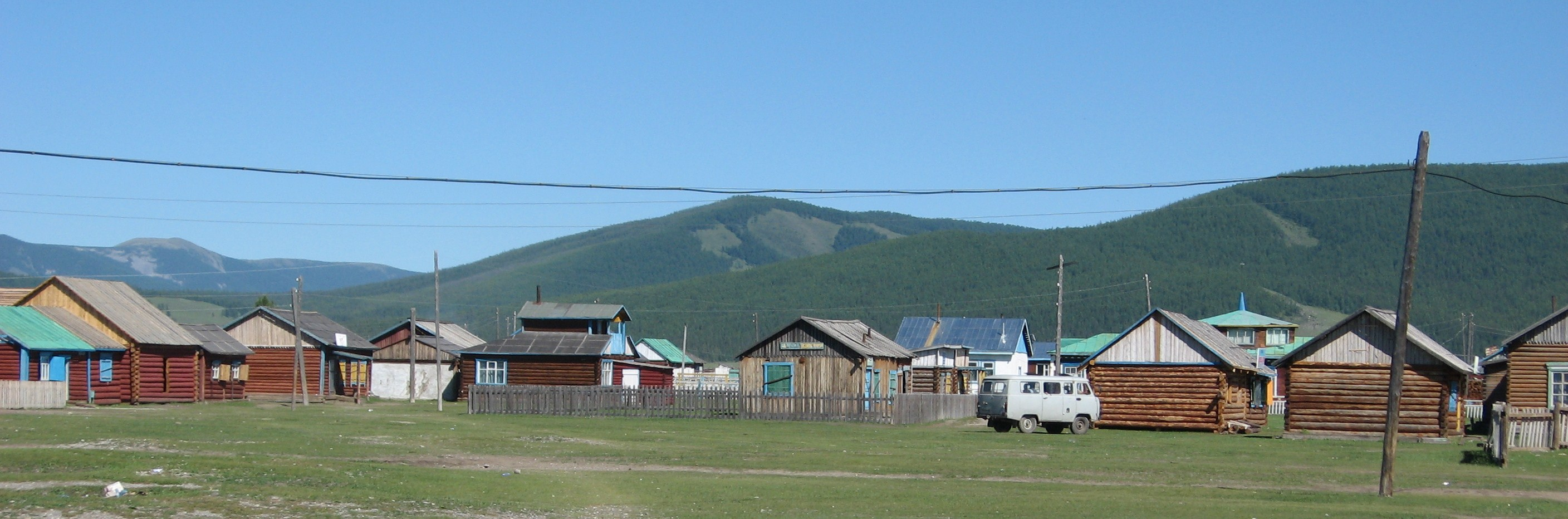 Renchinlhümbe sum center. Direction of view is roughly eastward. The mountains to the south are actually much more spectacular.